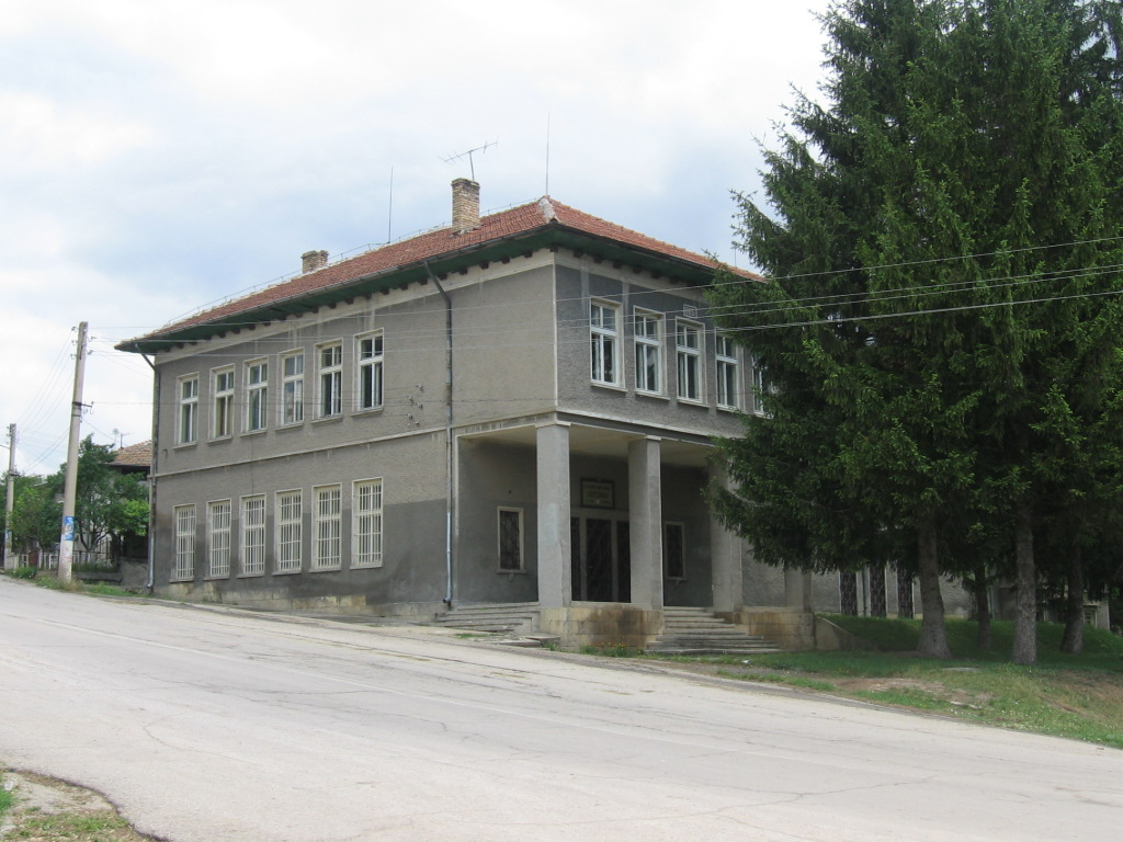 Bulgarian village Gagovo - library "Svetlina"